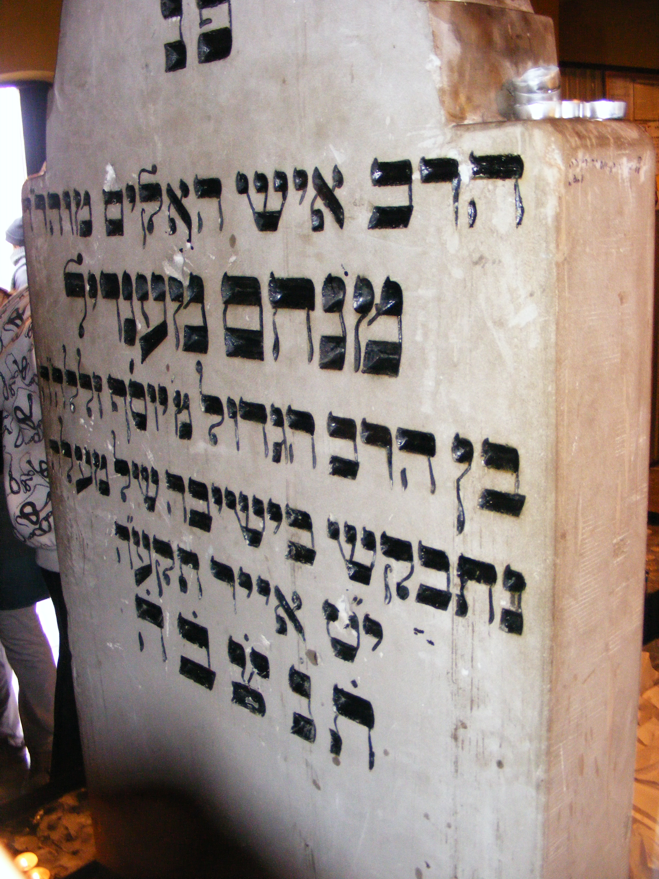 Rimanov headstone Poland